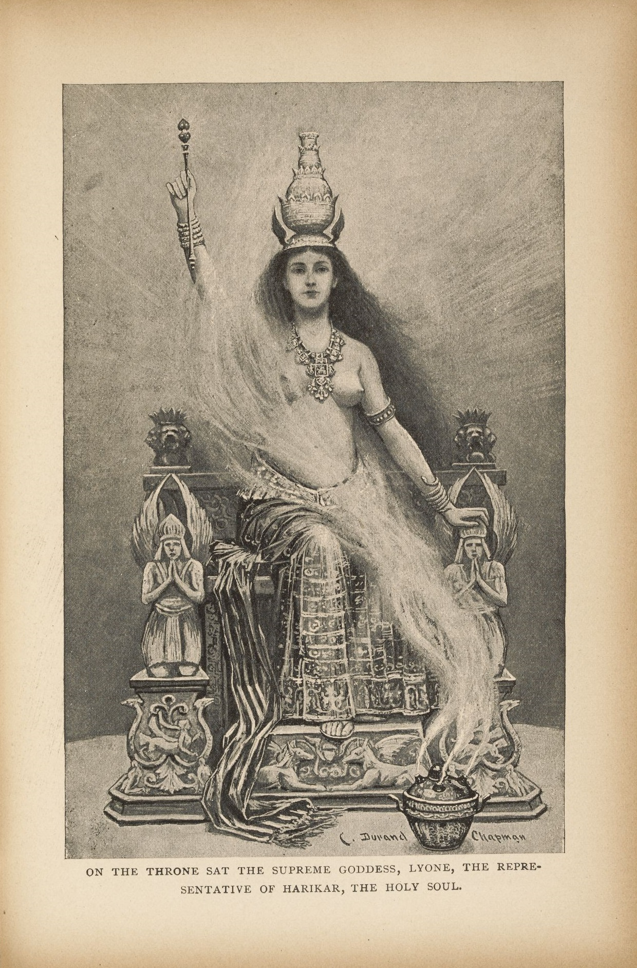 Illustration by Cyrus Durand Chapman, from The Goddess of Atvatabar: being the history of the discovery of the interior world and conquest of Atvatabar by William Richard Bradshaw (1851-1927). New York: J.F. Douthitt, 1892. SF-251, Houghton Library, Harvard University